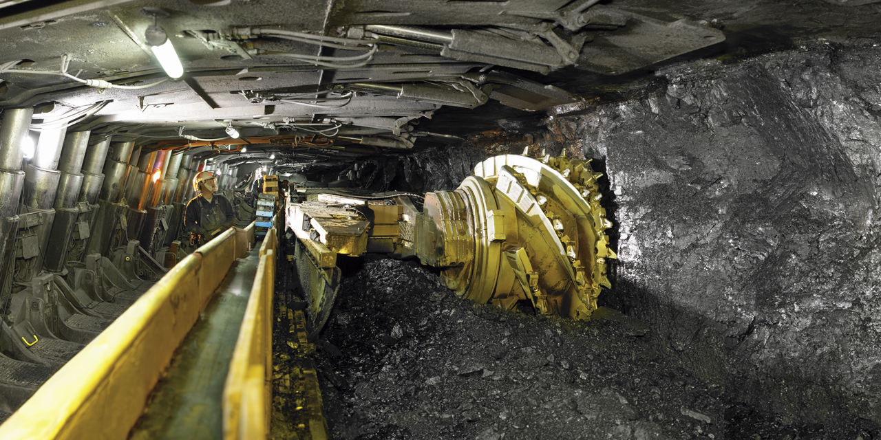 Longwall shearer and armored face conveyor operating at the Twentymile underground coal mine.